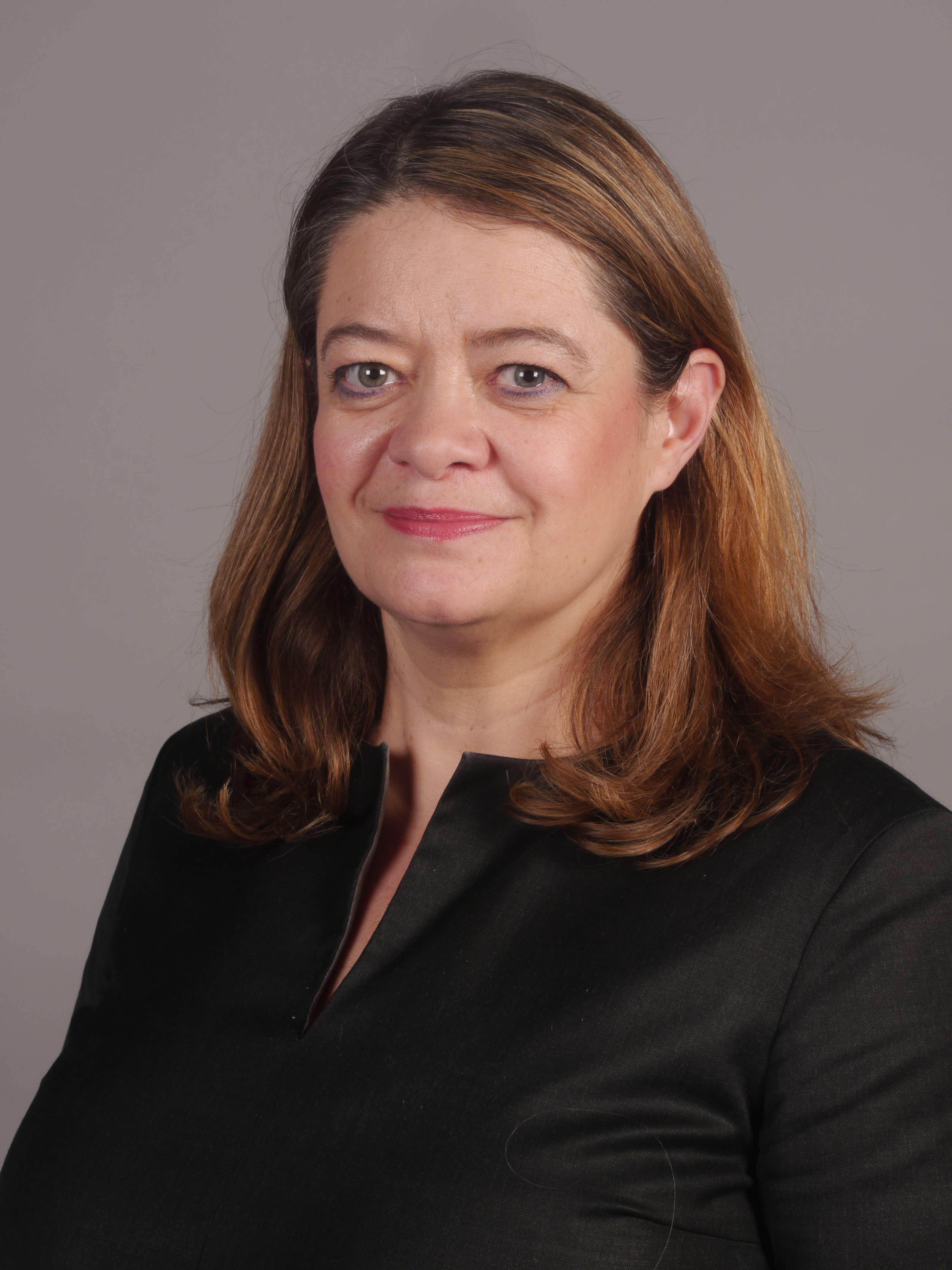 Photograph taken during Wiki Loves Parliament in february 2014 in European Parliament of Strasbourg.